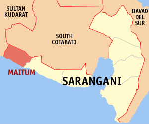 Map of the Sarangani showing the location of Maitum